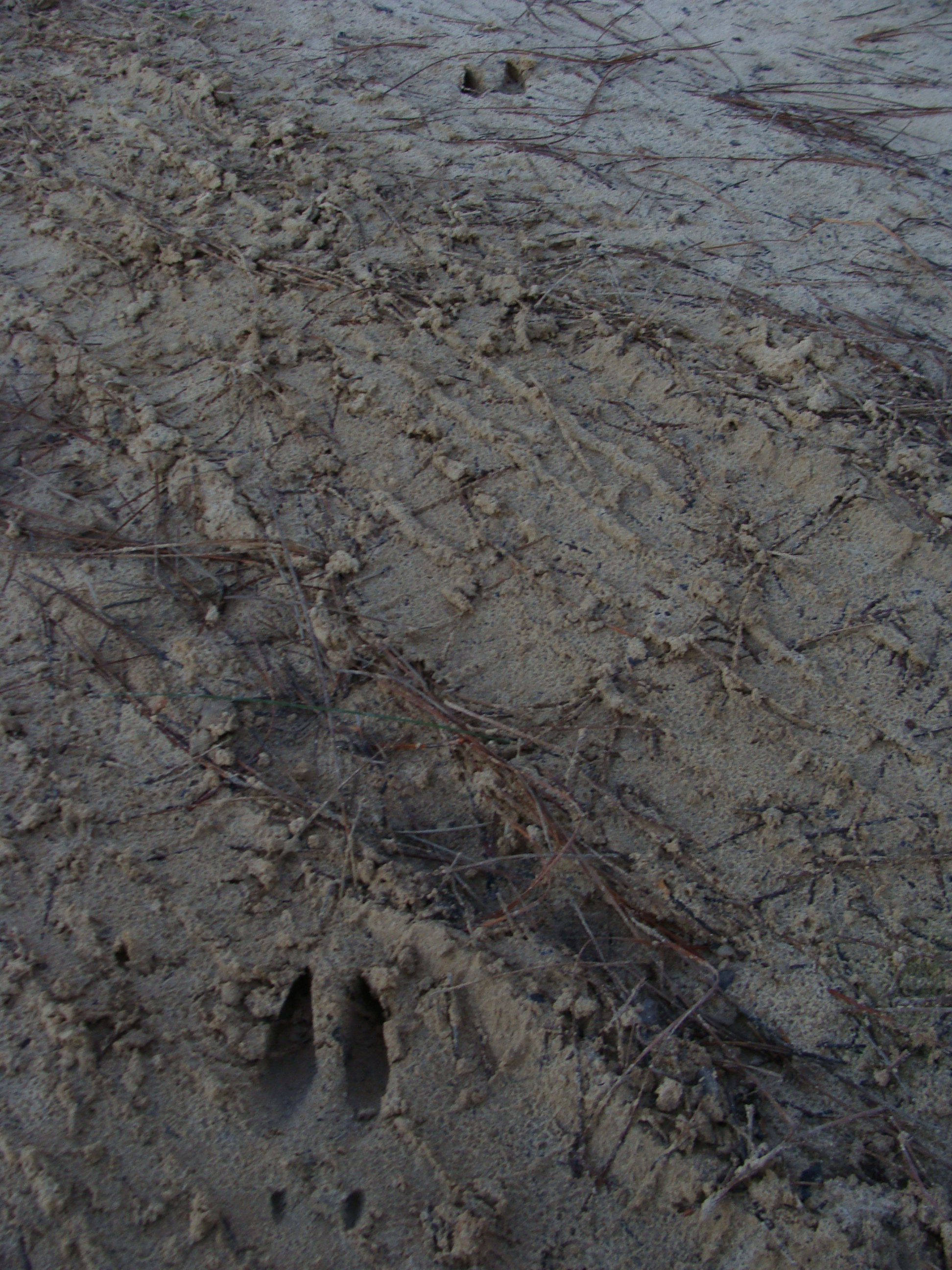 A walking deer track located off of FH 111 in the Apalachicola National Forest in northern Florida